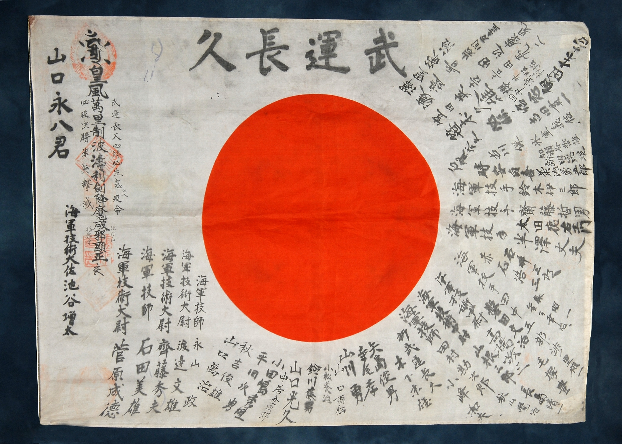 Mrs Carol Conover, a NASIC employee, donated this flag to the NASIC history office years ago. It belonged to her father-in-law who brought it home from the Pacific after WWII. It is now back in the hands of the original owner's (Eihachi Yamaguchi) family.